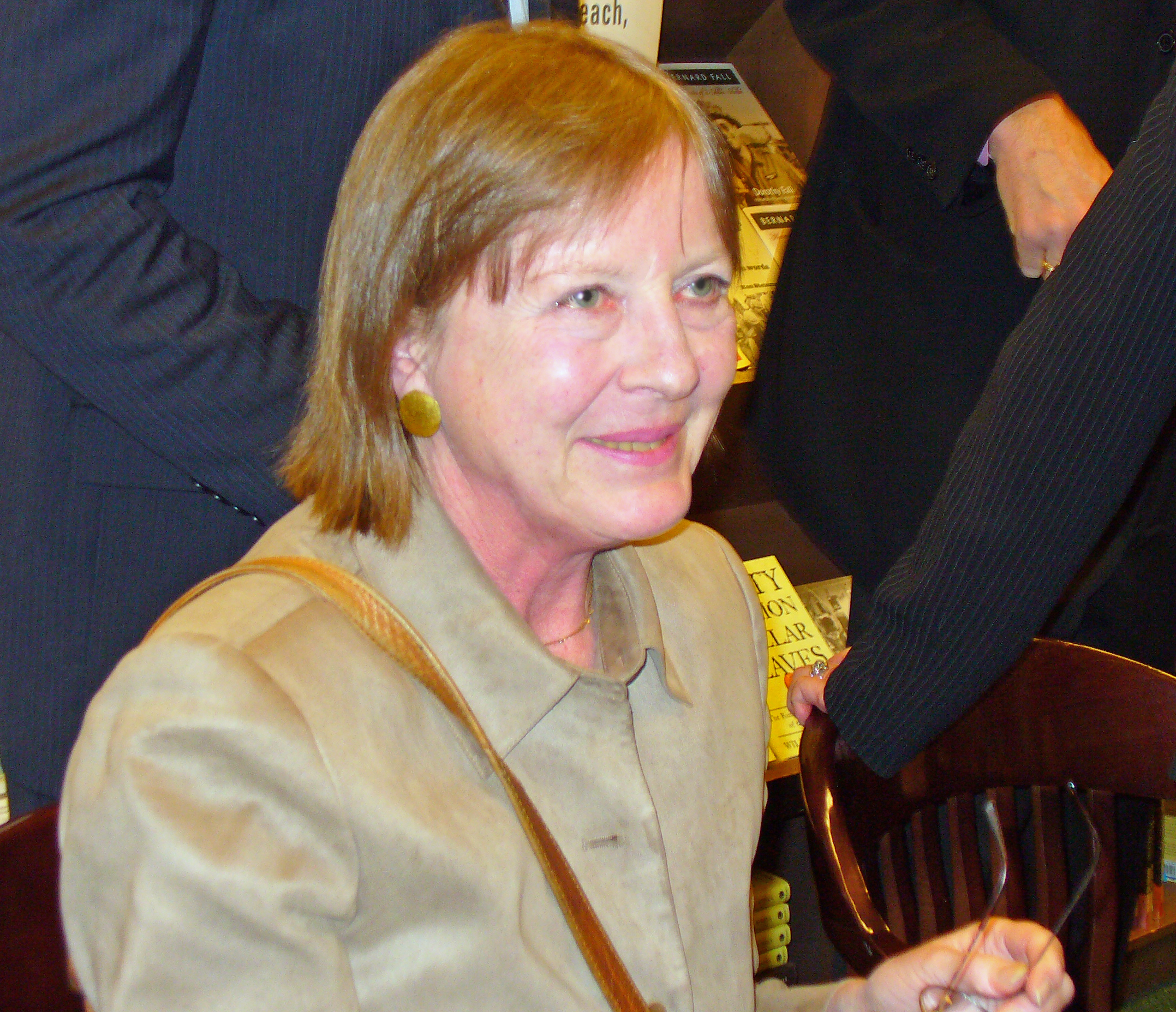 Frances FitzGerald by David Shankbone